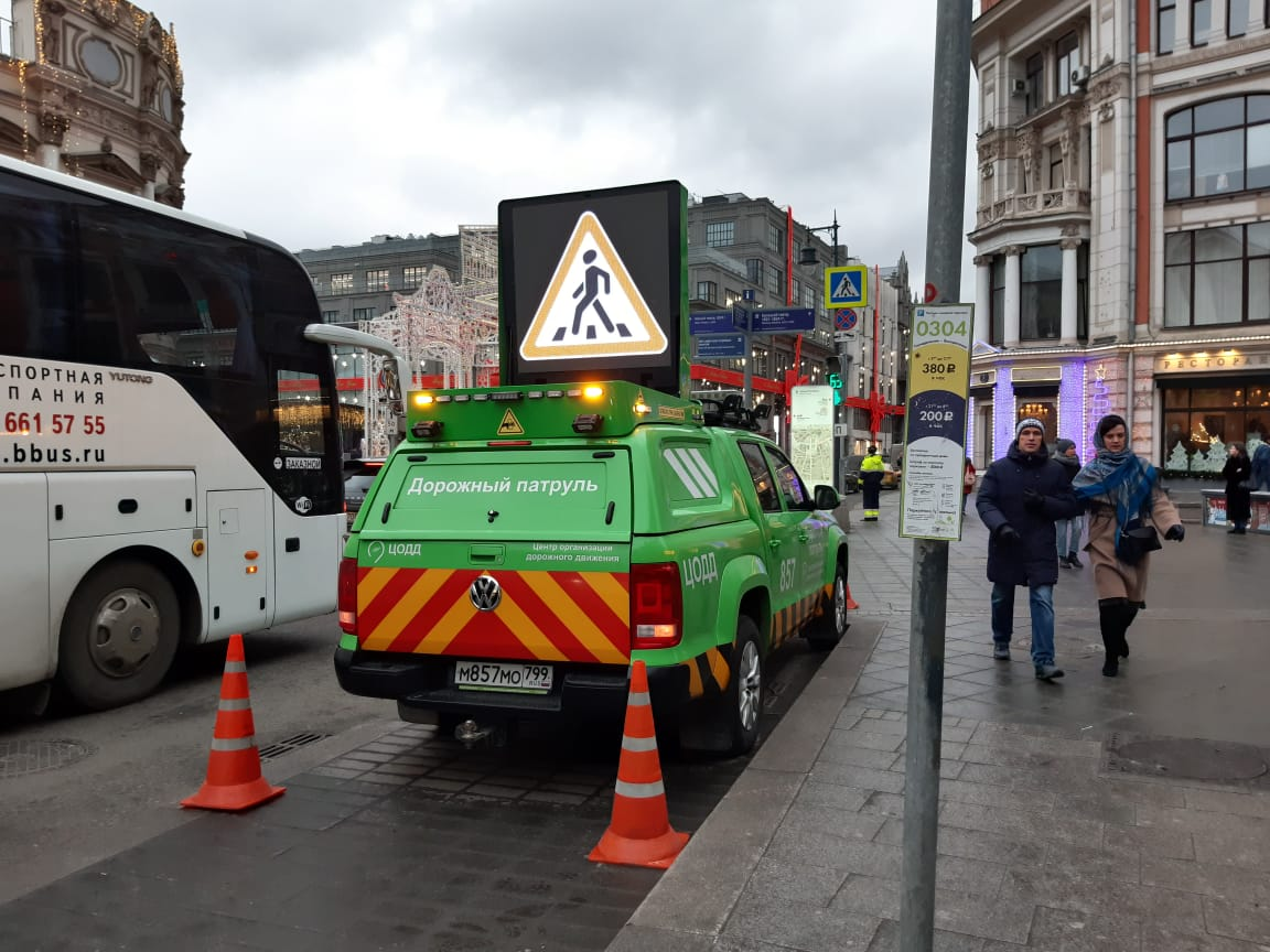 Volkswagen Amarok used by the Road Patrol of the Centre for Road Traffic Organization vehicle, Moscow